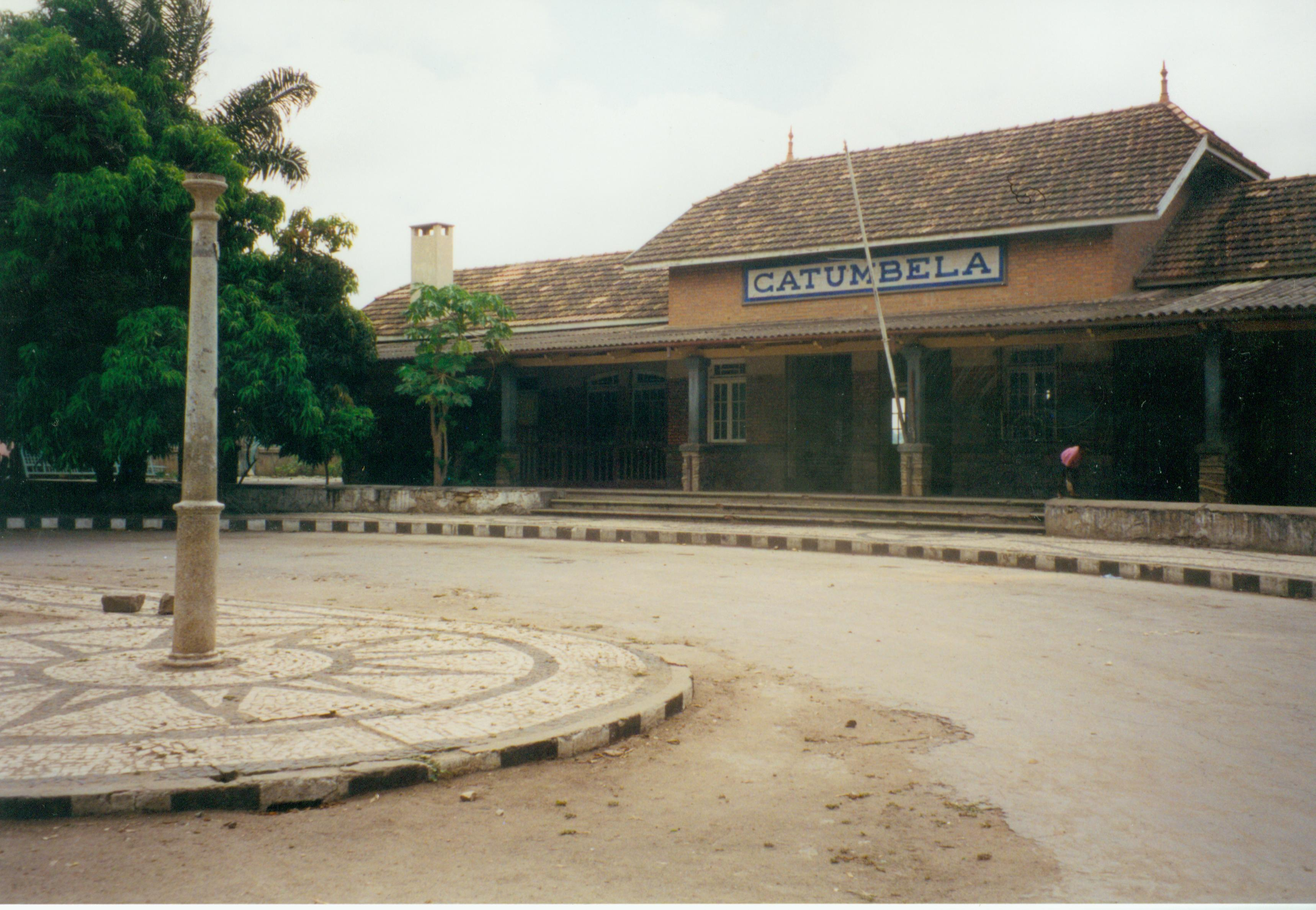 Catumbela train station of Benguela railway, Angola